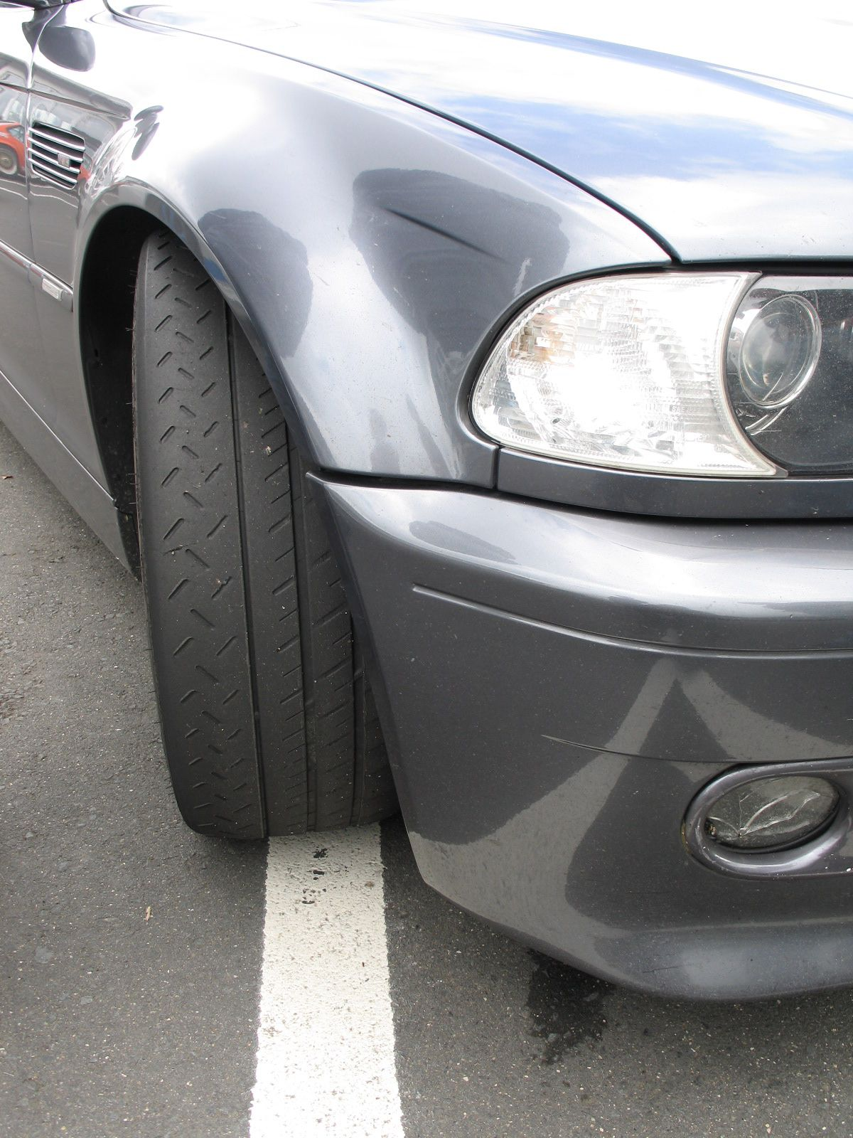 Love those Michelin Cup tyres...BMW M3 CSL (E46) with Michelin Pilot Sport Cup tiresM3 CSL